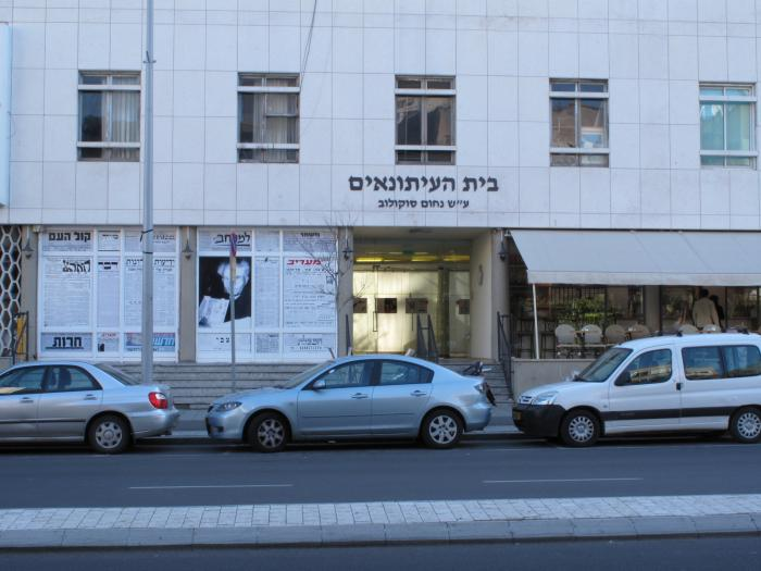 The Nahum Sokolov House, a.k.a the House of Journalists, the residence of the Israeli Journalist Association and the Israeli Press Council.